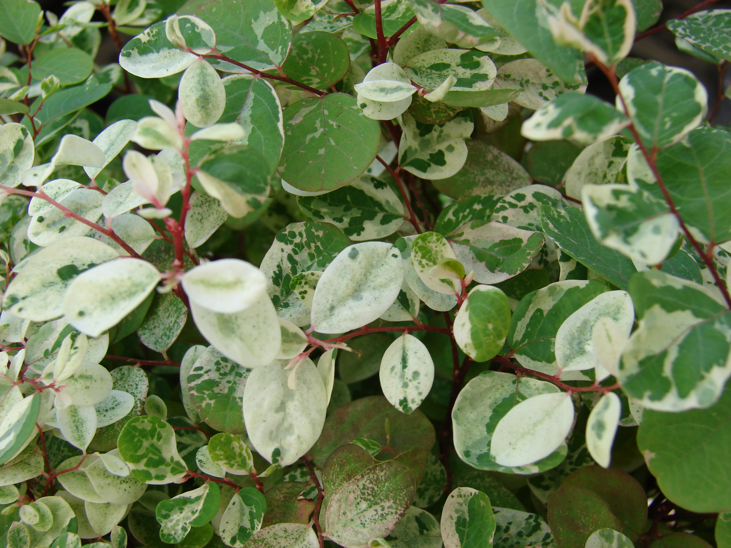 Breynia disticha (leaves). Location: Maui, Walmart Kahului